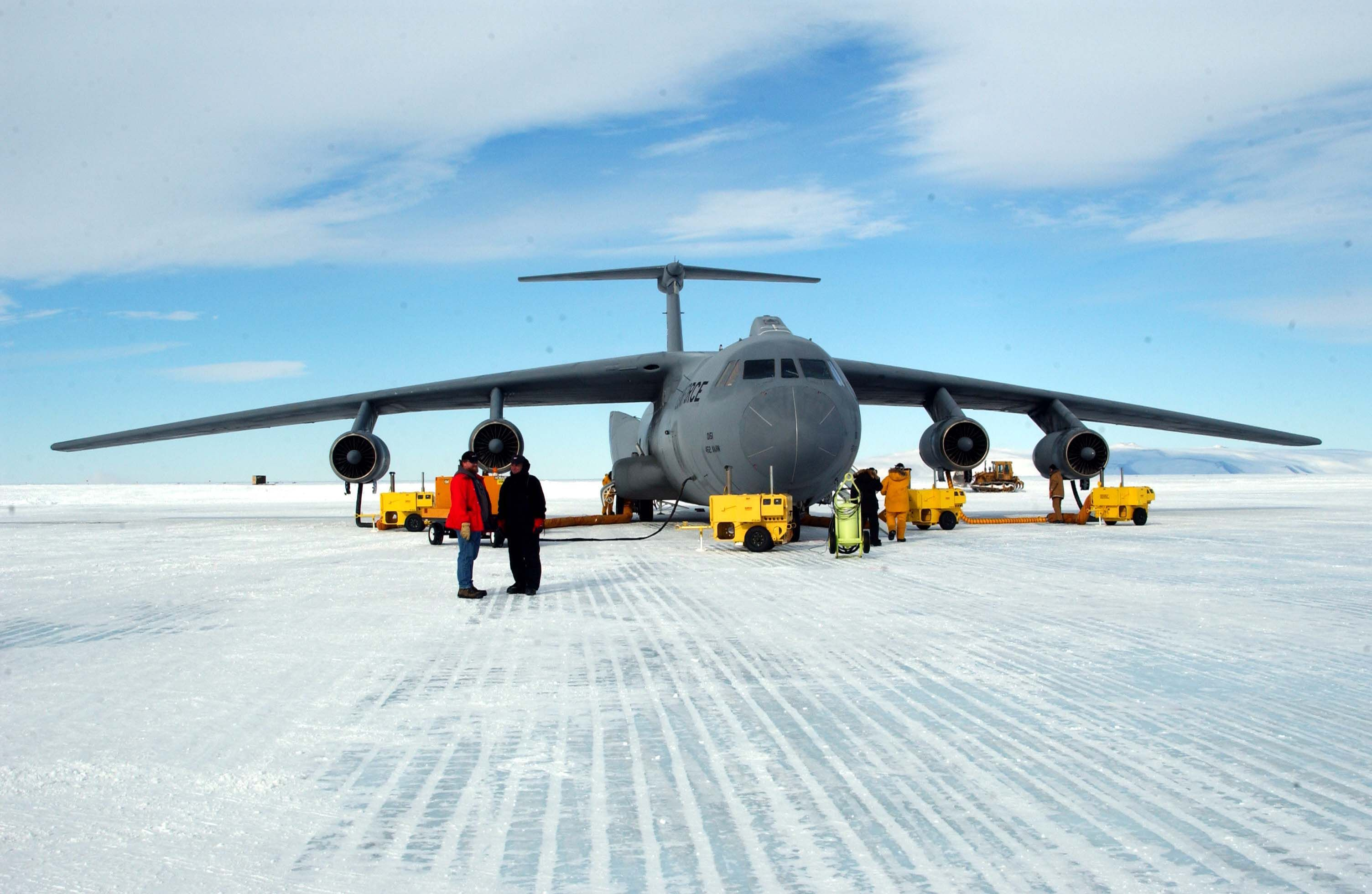 MCMURDO STATION, Antarctica -- A C-141 Starlifter sits here with engine heaters to keep mechanical parts from freezing up under the frigid condition. Starlifters from the 445th Airlift Wing at Wright Patterson Air Force Base, Ohio, and the 452nd Air Mobility Wing at March Air Reserve Base, Calif., were here supporting Operation Deep Freeze. (U.S. Air Force photo by Tech. Sgt. Joe Zuccaro)